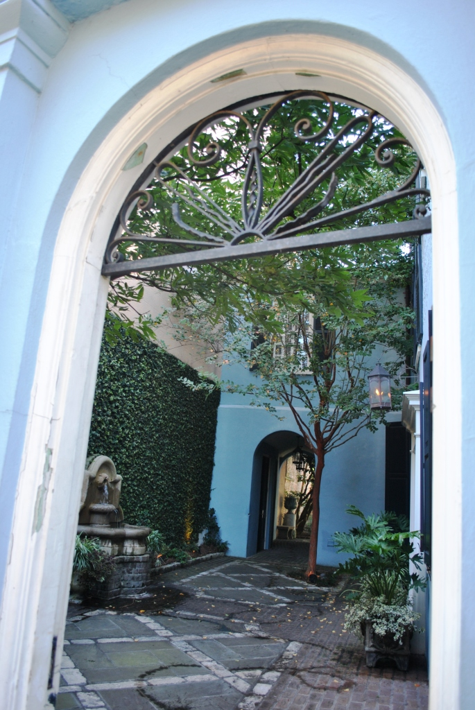 Rainbow Row